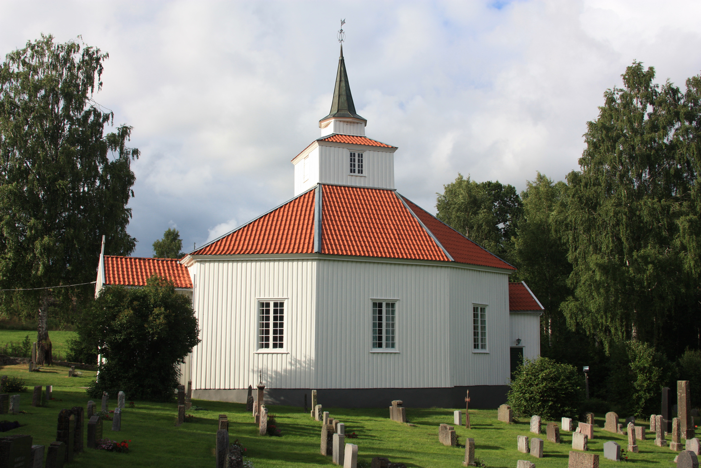 Mykland kirke Aust Agder